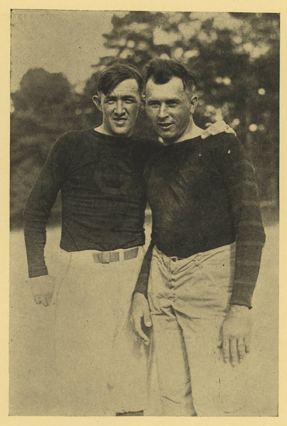 Frank B. Anderson on the left and Kirby S. Malone on the right, Oglethorpe University athletics coaches.